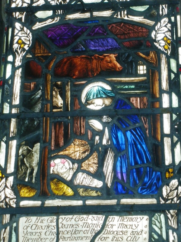 North Chancel Window in Lady Chapel of Gloucester Cathedral. Window by Christopher Whall. The Nativity